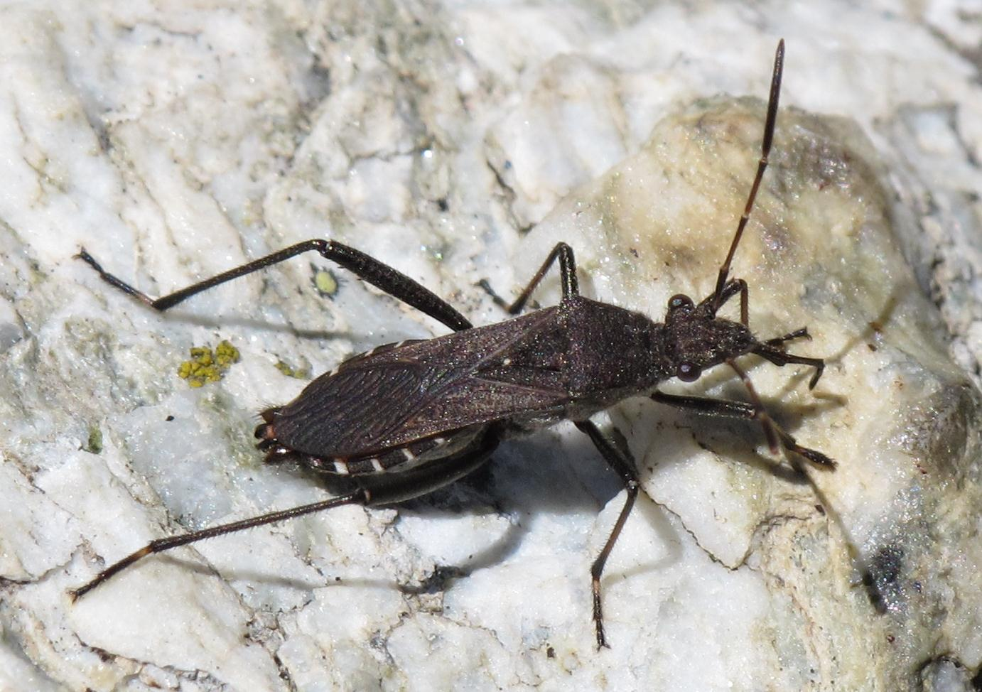 male Alydus calcaratus, found between Alterhaupt and Hohbalmen near Zermatt (VS) in Switzerland